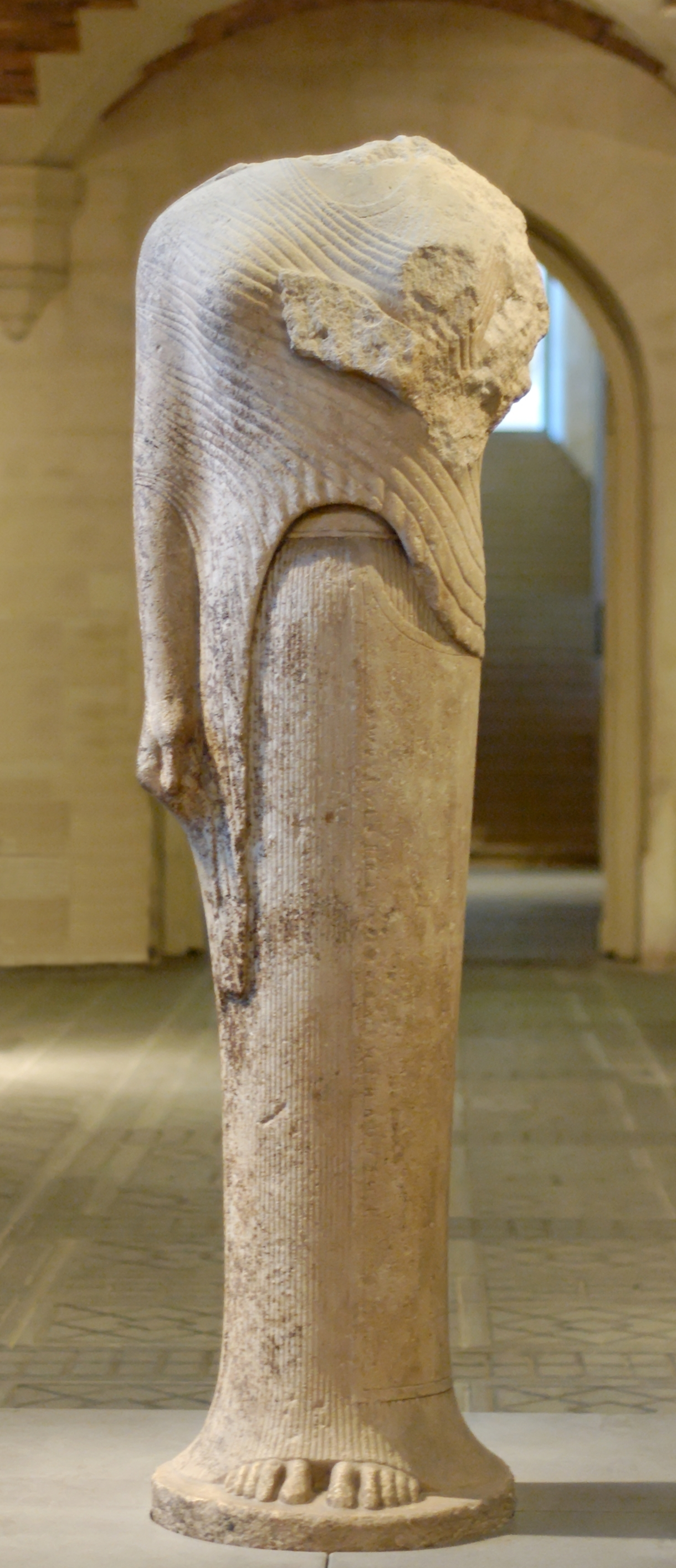 Kore (archaic statue of a young maiden) from the Heraion of Samos. Bears an inscription in Ionian alphabet: "Cheramyes dedicated me to Hera, as a gift". Marble, made in Samos, ca. 570–560 BC.